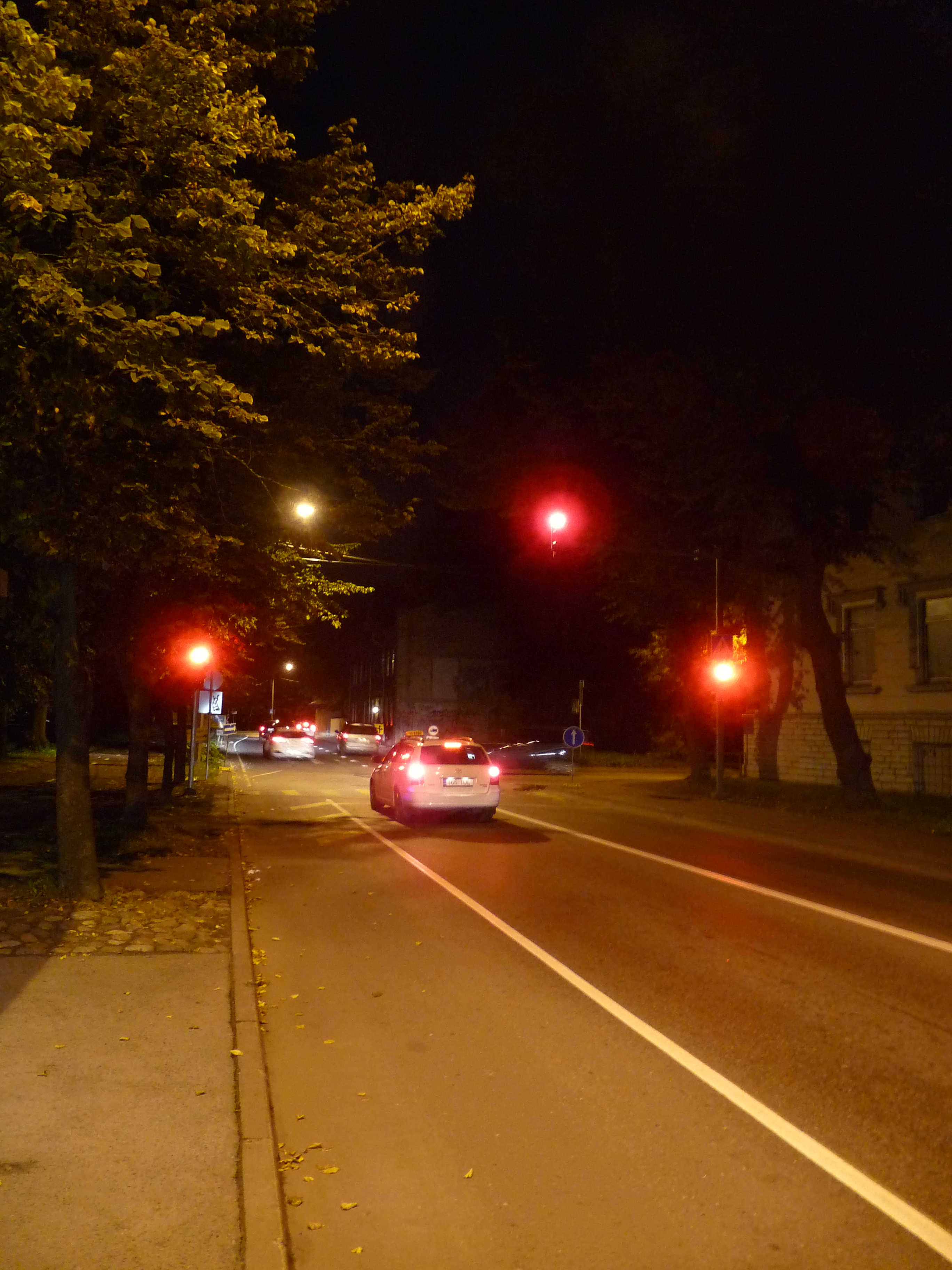 Tallinn, Estonia